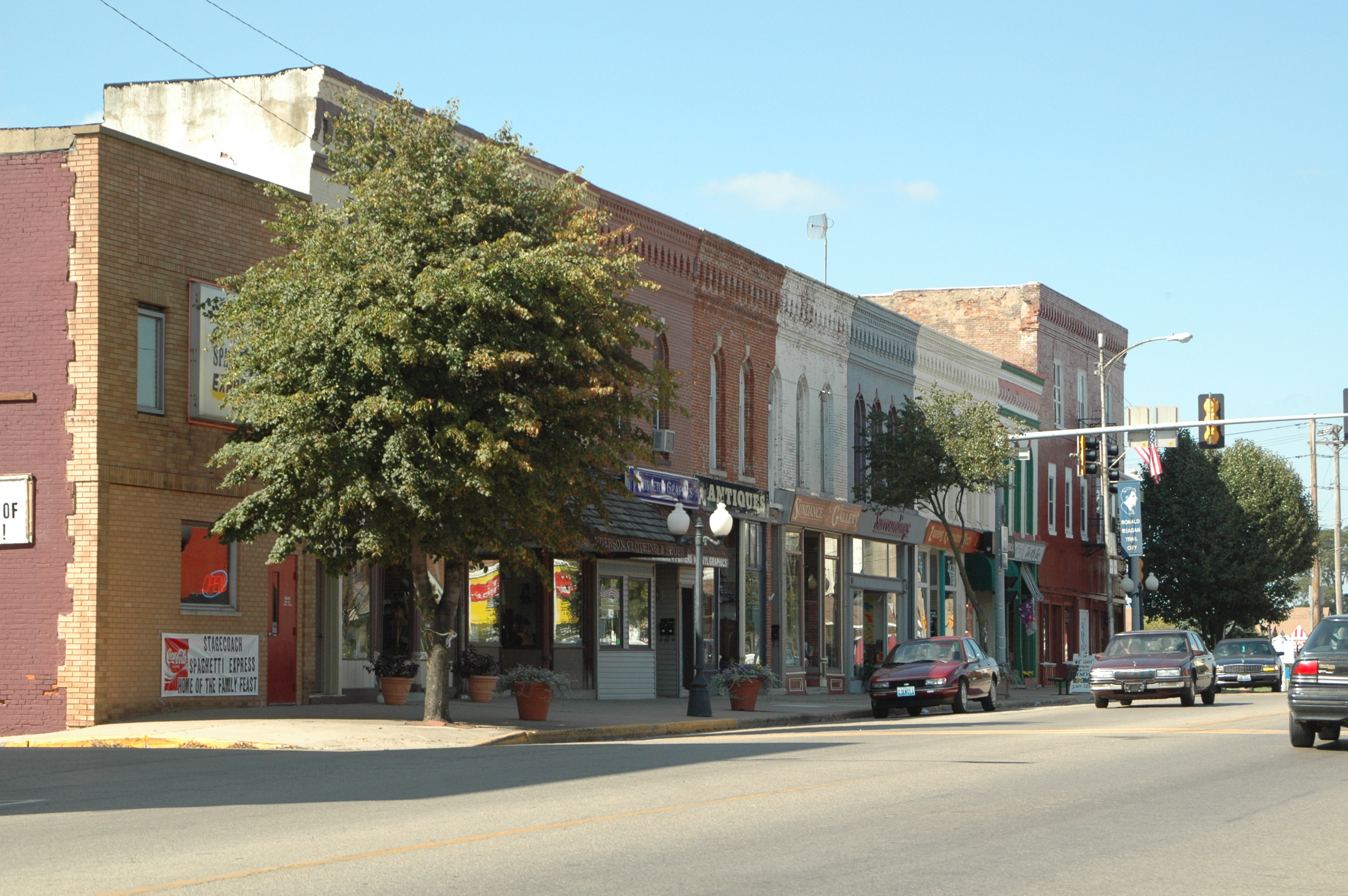 View of the north historic Main Street district in Princeton, Illinois. (source: personal photo) Category:Images of Princeton, Illinois